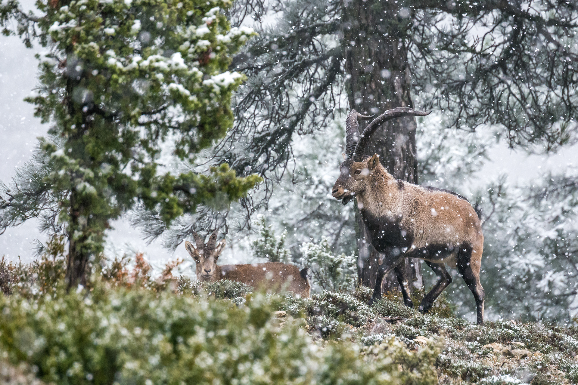 Spanish ibex (Capra pyrenaica) during winter in the mountain range of Iberian System in the province of Teruel, Spain.